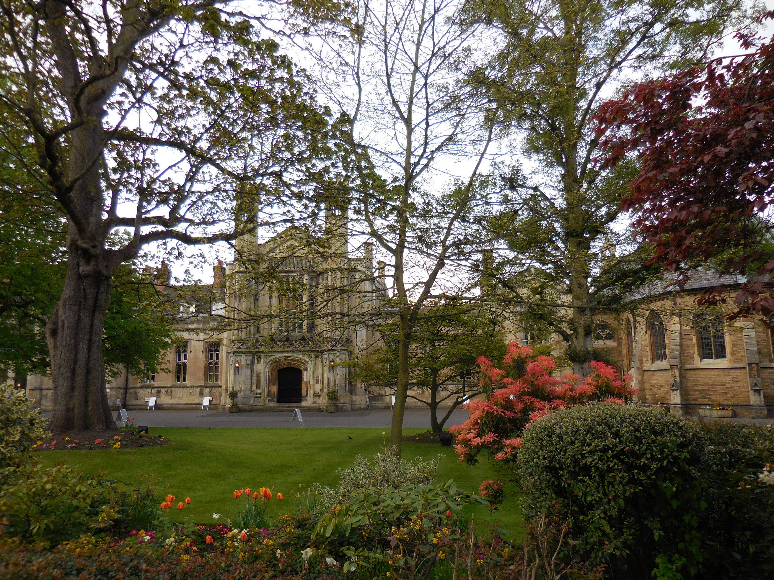 St Peter's School, York